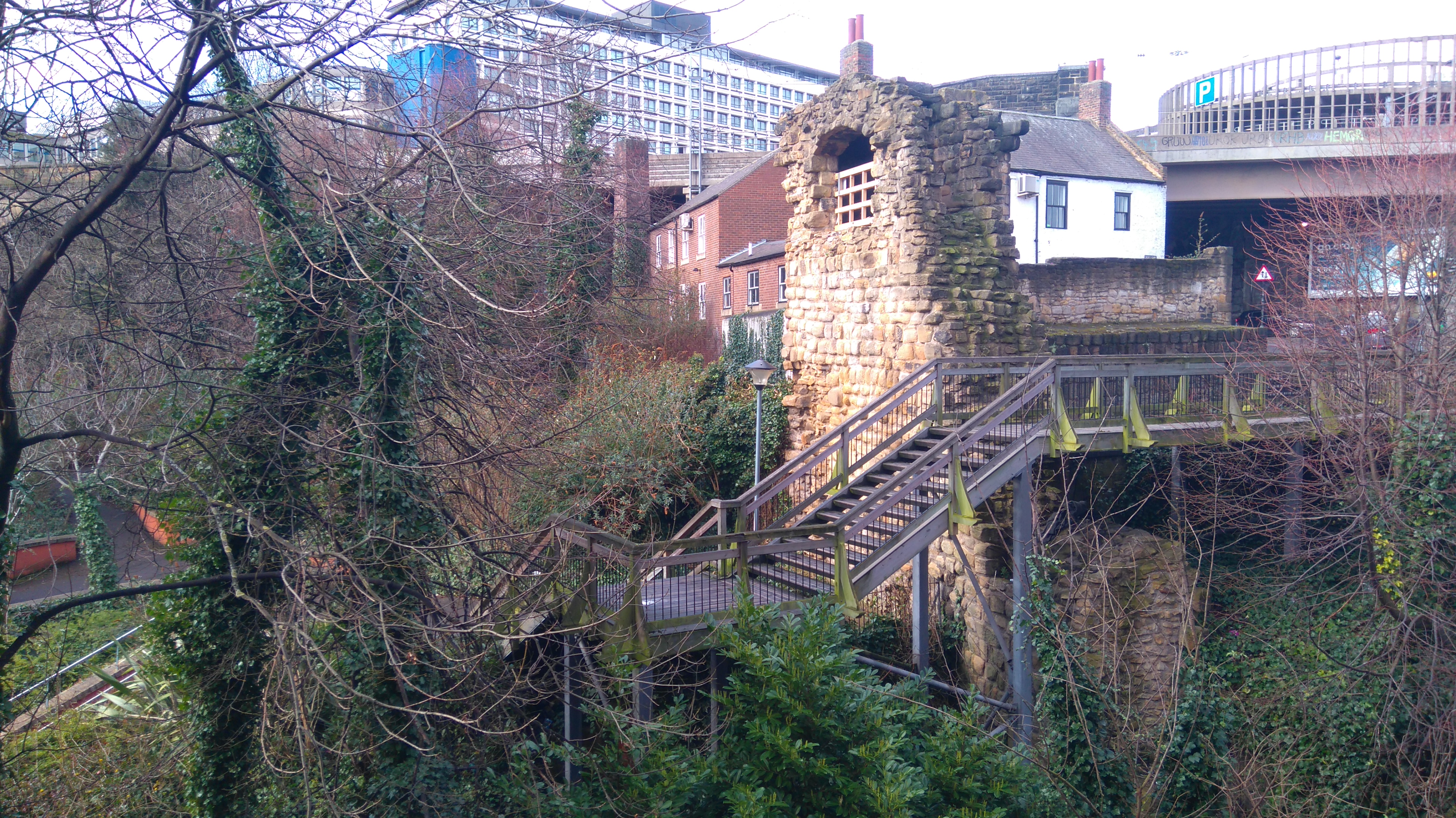 Corner Tower, Newcastle-upon-Tyne, showing access arrangements